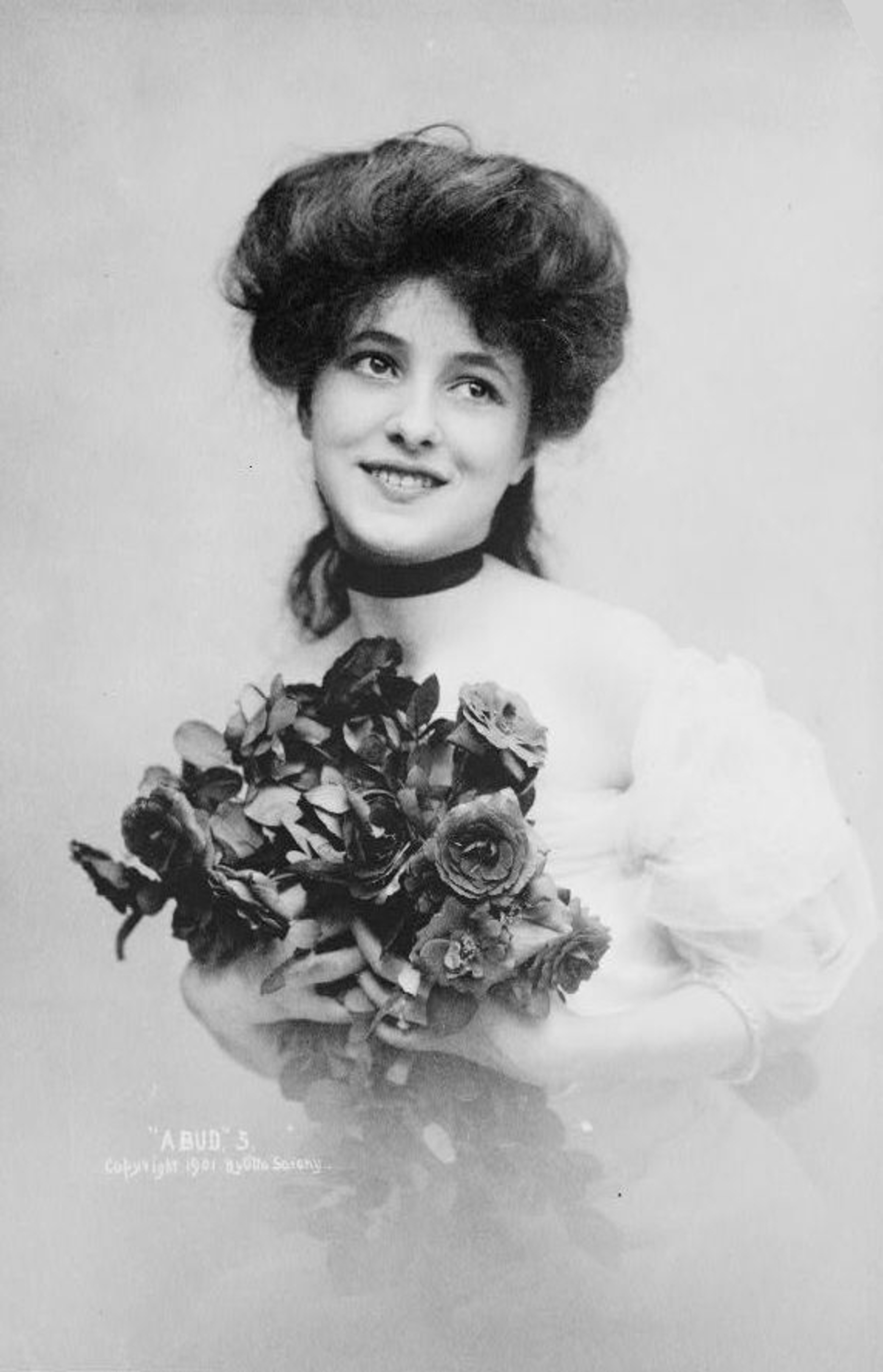 Evelyn Nesbit, half-length portrait, facing front, holding bouquet of roses.